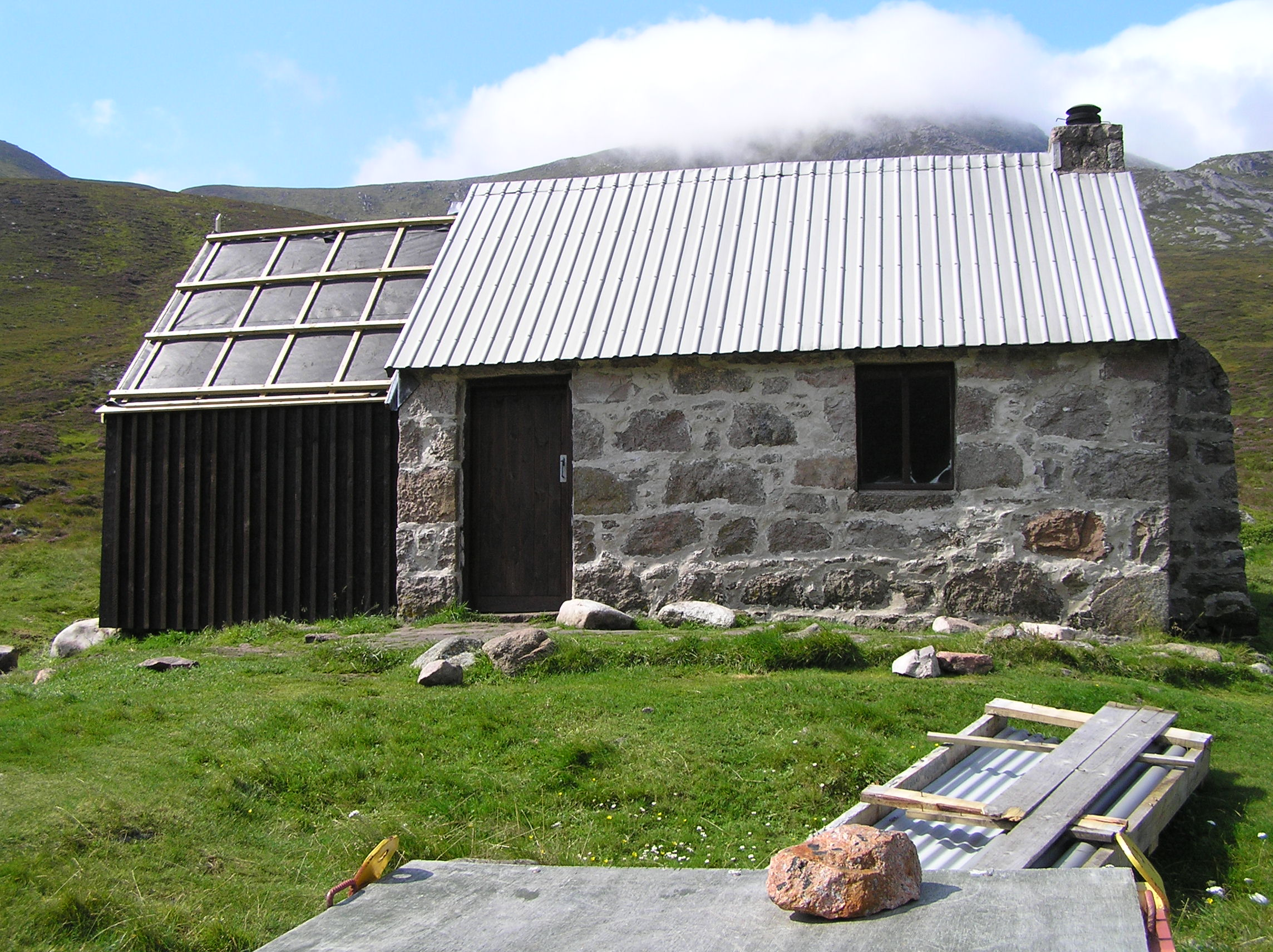 Corrour Bothy on Mar Lodge Estate (a National Trust for Scotland property) showing the toilet block extension